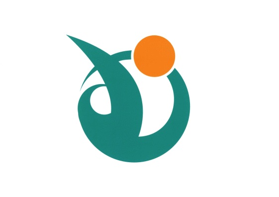 Flag of Murakami Niigata